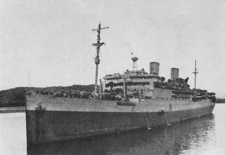 USS Hermitage (AP-54) underway, January 1943, place unknown.